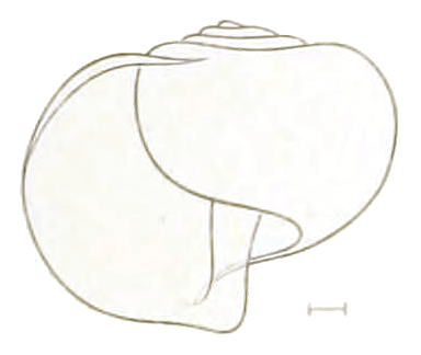 Drawing of apertural view of the shell of Limacina rangii (d'Orbigny, 1834) (synonym: Limacina antarctica).